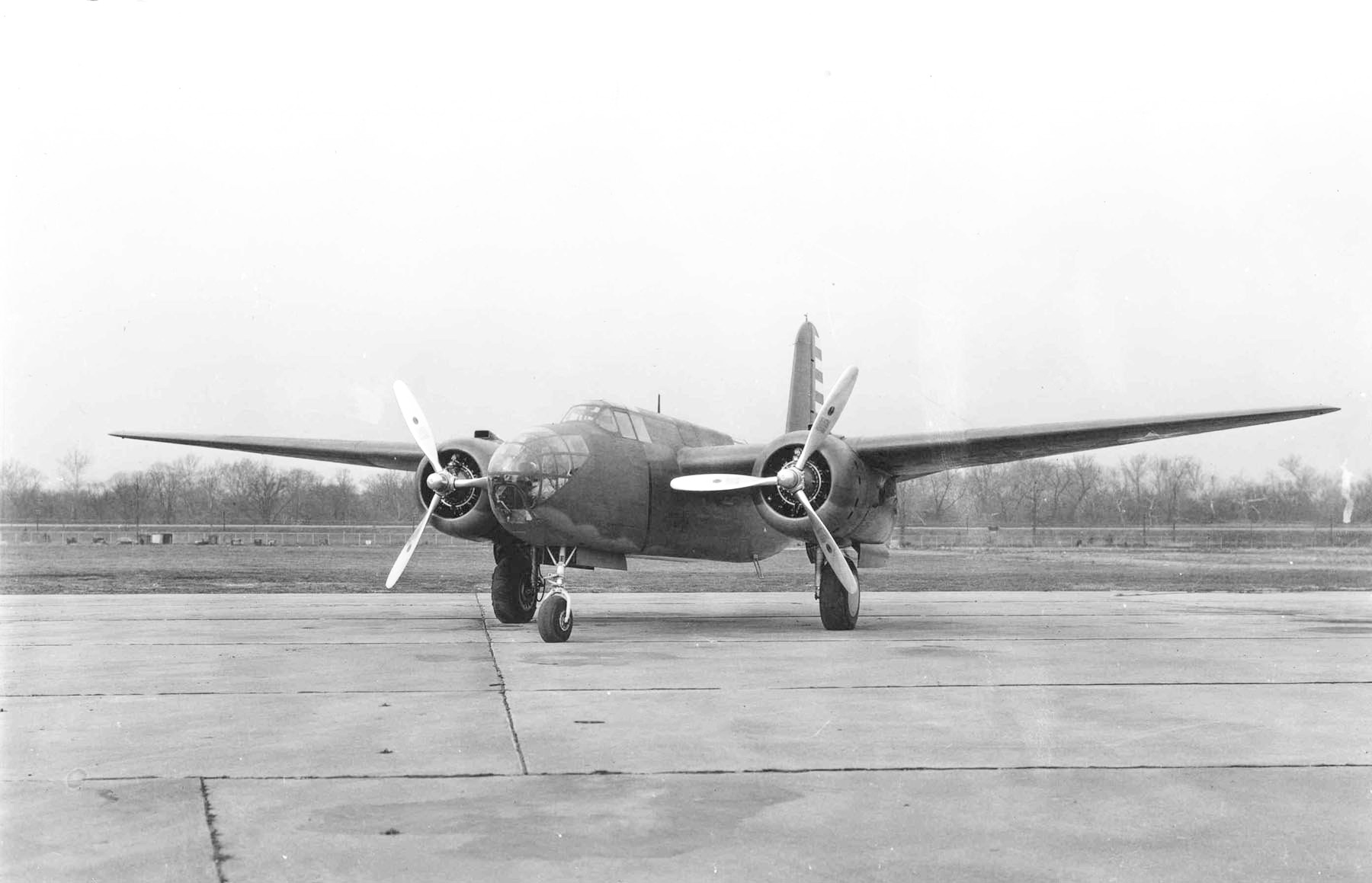 Douglas A-20A - Wright R-2600-3 Engines. (19920 A.C.)